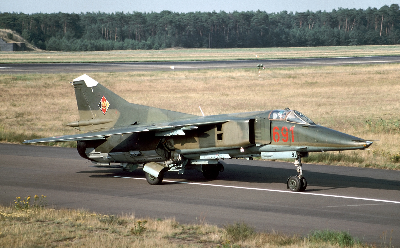 Drewitz in the south east of the German Democratic Republic (DDR) was the home base of JBG-37 flying MiG-23BN Flogger-Hs until October 1990.